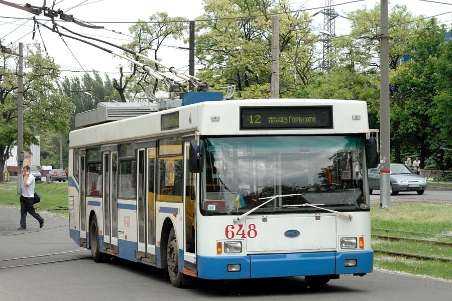 YuMZ E-186 648 in Kryvyi Rih